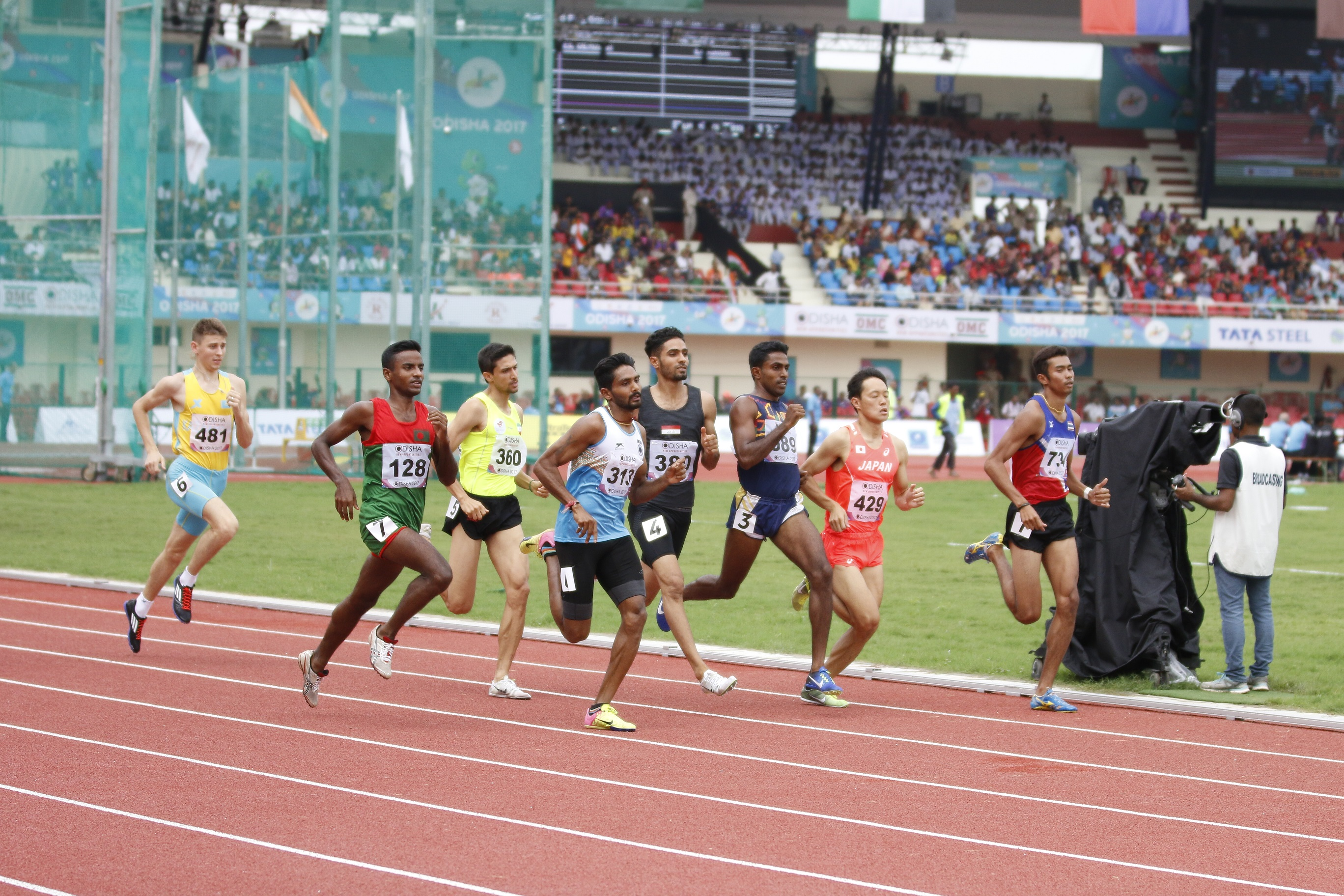 Athletes during 22nd Asian Athletics Championships in Bhubaneswar.